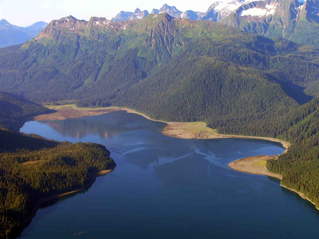 Windfall harbour, a natural harbour in Admiralty Island National Monument, Alaska